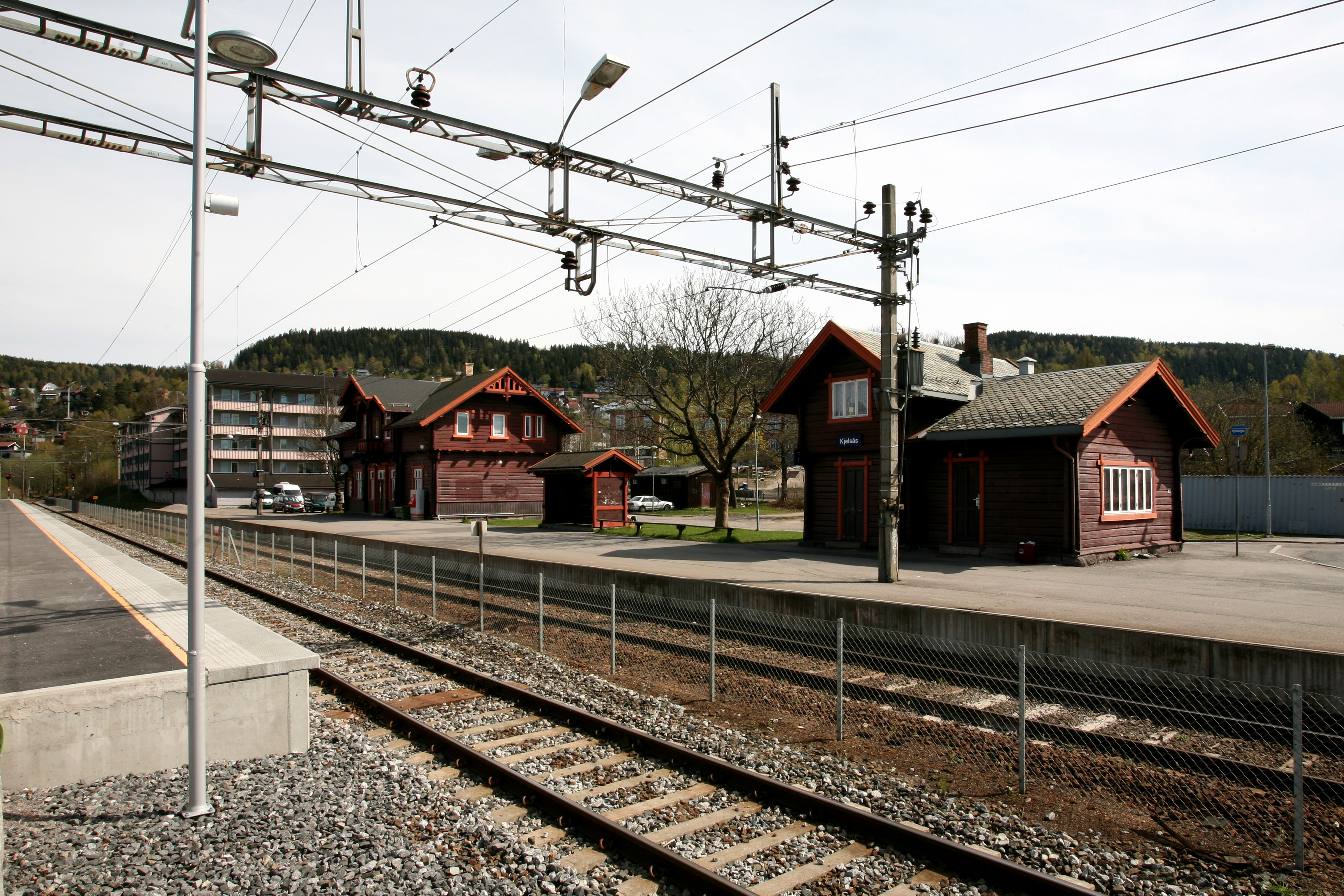 Picture of Kjelsås Railway Station (Norway)